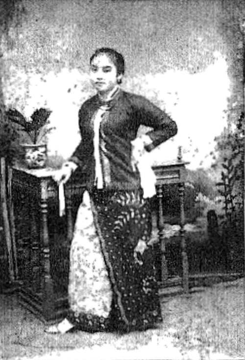 A portrait of a njai, or concubine, from the first edition of OS Tjiang's Sair tjerita di tempo tahon 1813 soeda kadjadian di Batawi, terpoengoet tjeritanja dari Boekoe "Njaie Dasima".